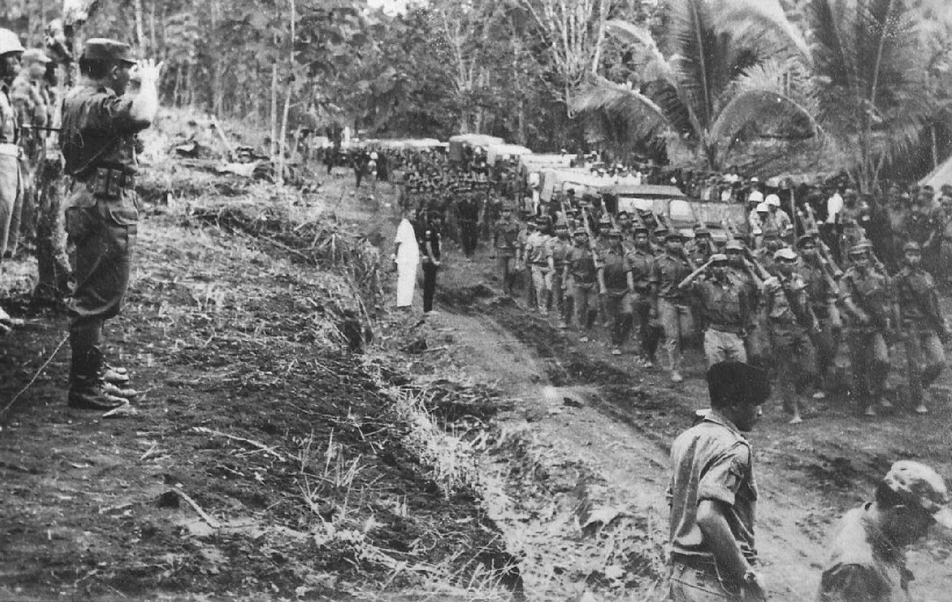 Col. Sunandar Prijosudarmo, Commander of Kodam XIII / Merdeka, salutes Permesta soldiers in a military ceremony on 4 April 1961